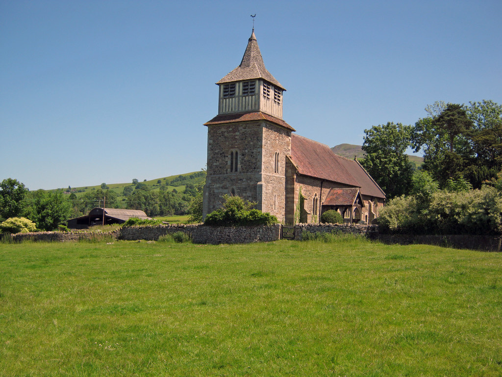 St Mary's parish church, Bitterley, Shropshire, seen from the west. The summit of Titterstone Clee Hill is can be seen above the chancel roof.